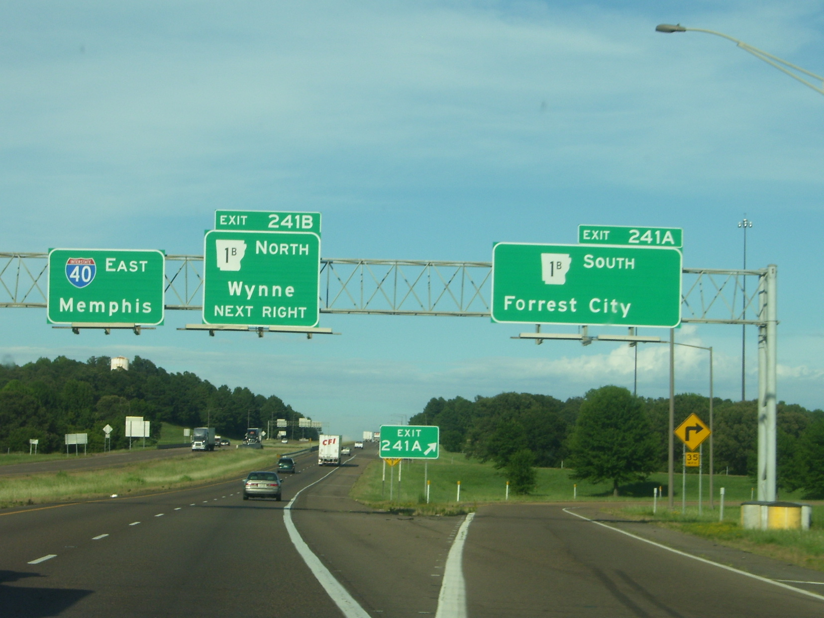 Signage for I-40 Exit 241A near Forrest City, Ark.